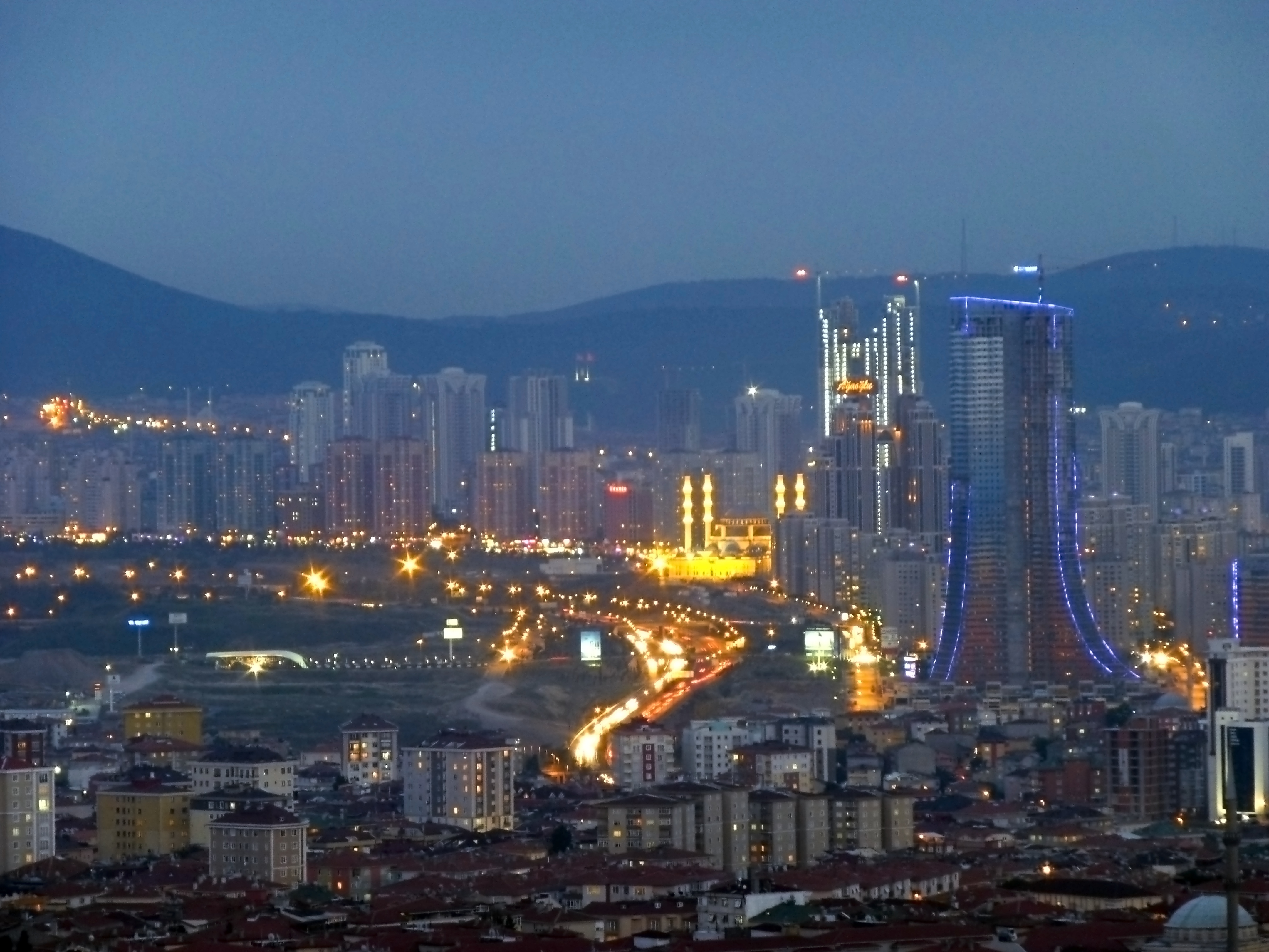 Ataşehir, İstanbul